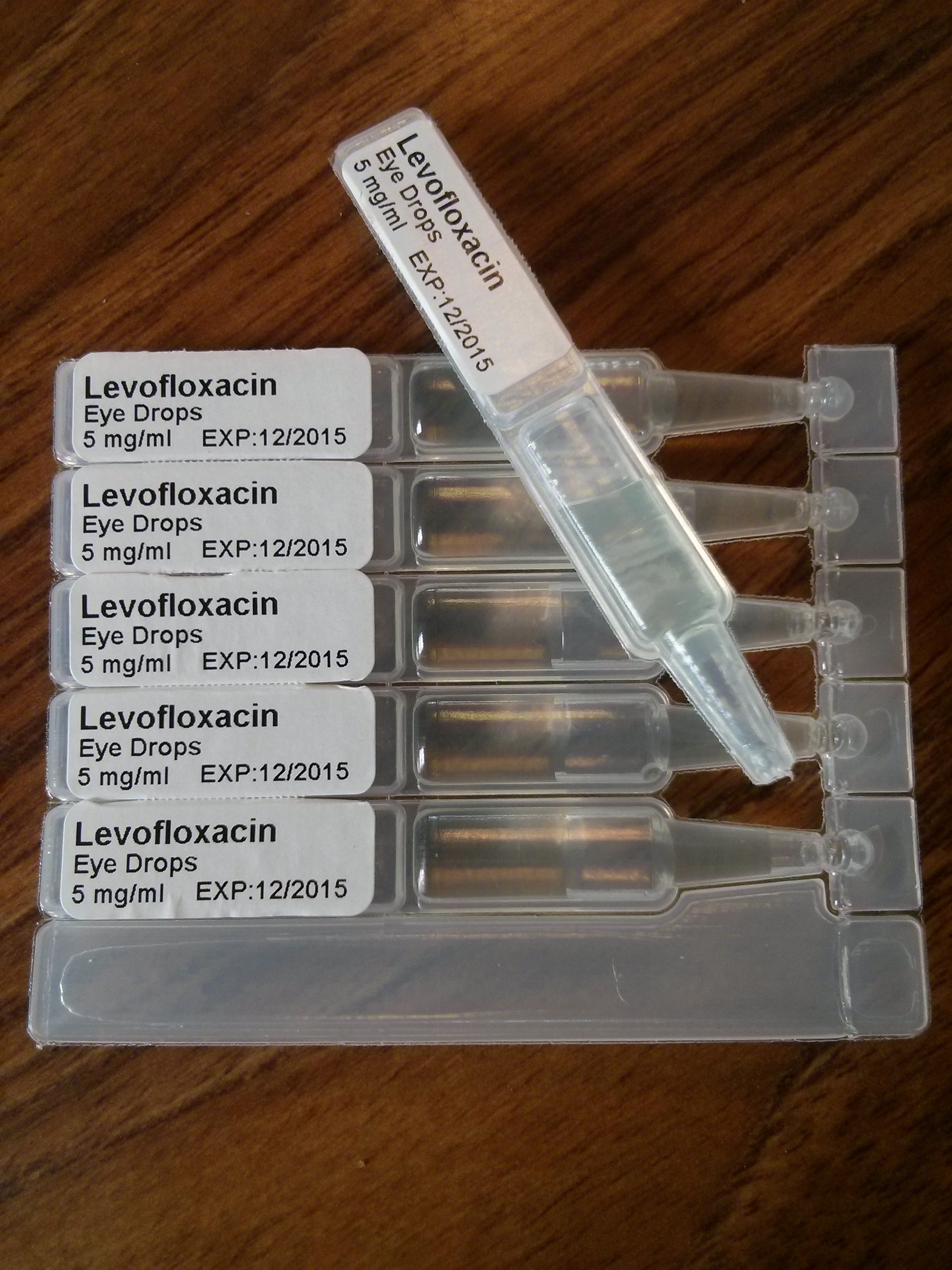 Lexofloxacin eye drops 5mg ml expires December 2015